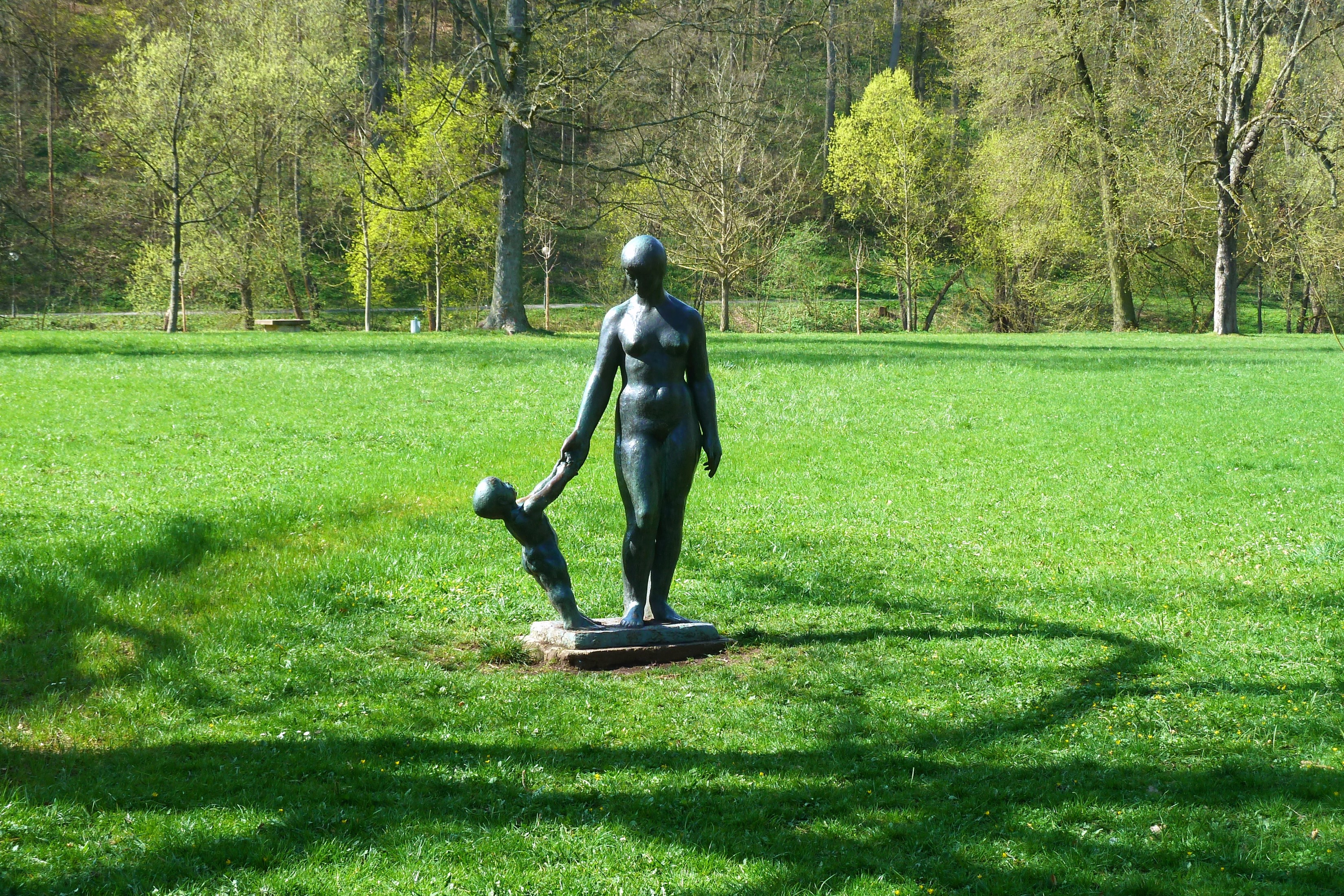 Public Garden in City Meiningen, Germany, "Mother and Child"